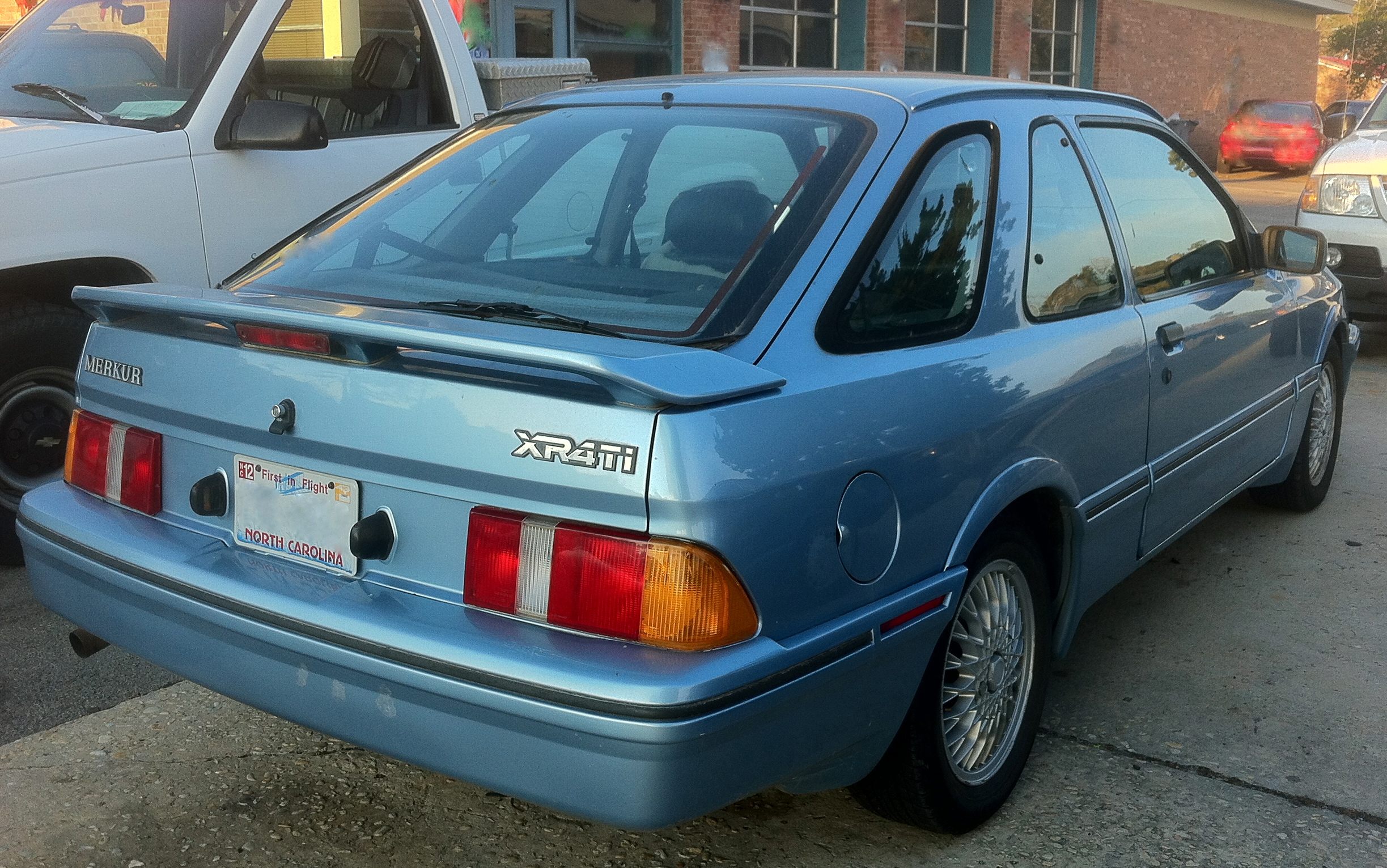 1988 or 1989 Ford Merkur XR4Ti hatchback finished in blue SOP. These late cars have a smaller rear spoiler rather than the earlier "biplane" unit.